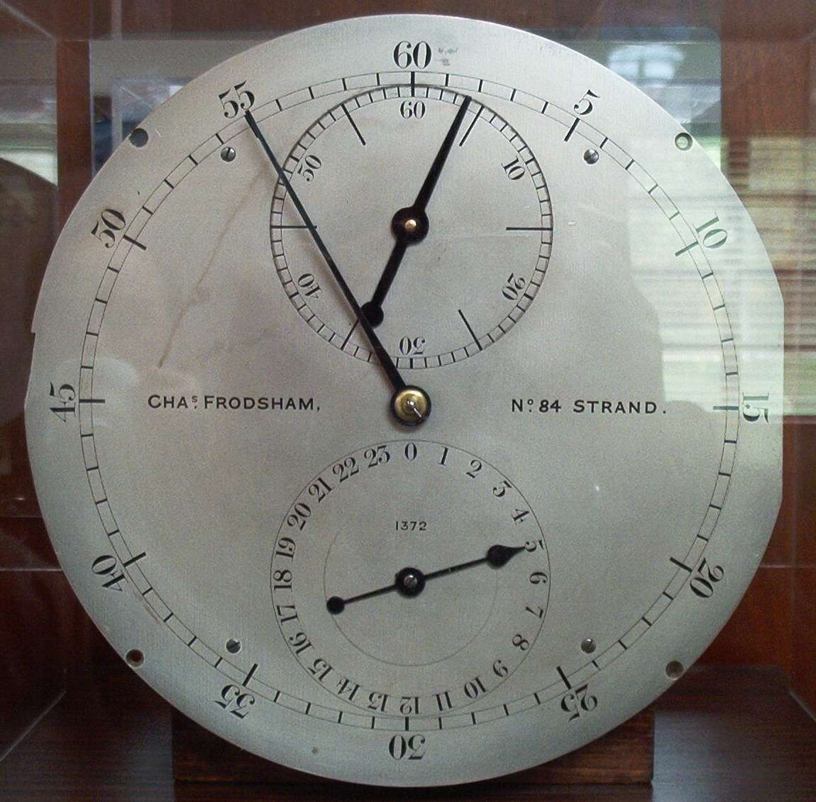 sidereal clock by Charles Frodsham, now in the Norman Lockyer Observatory, Sidmouth, Devon, England.